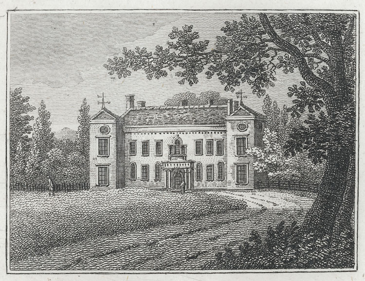 Manor-house.